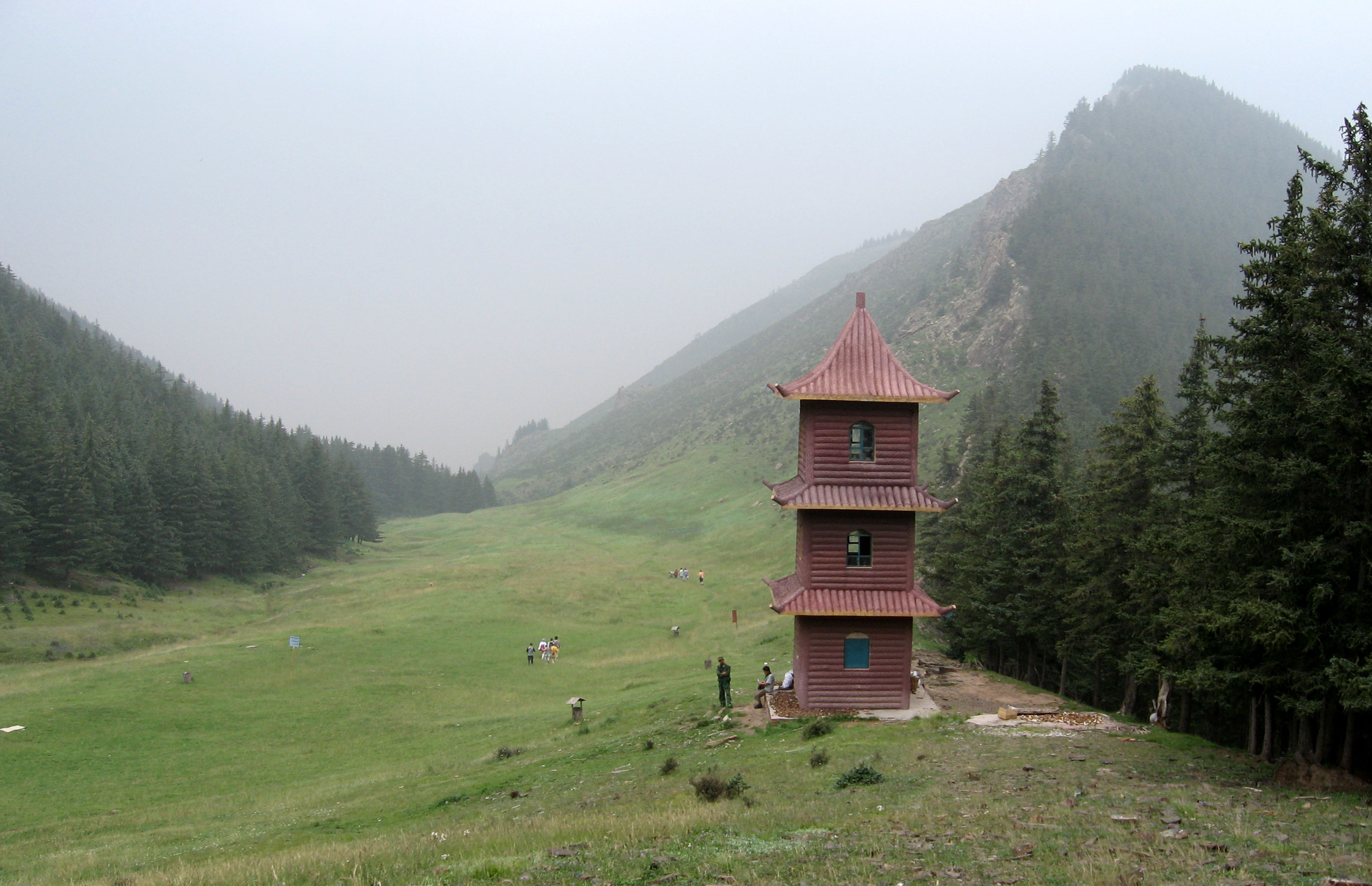 In the upper ranges of the Alshaa mountains.